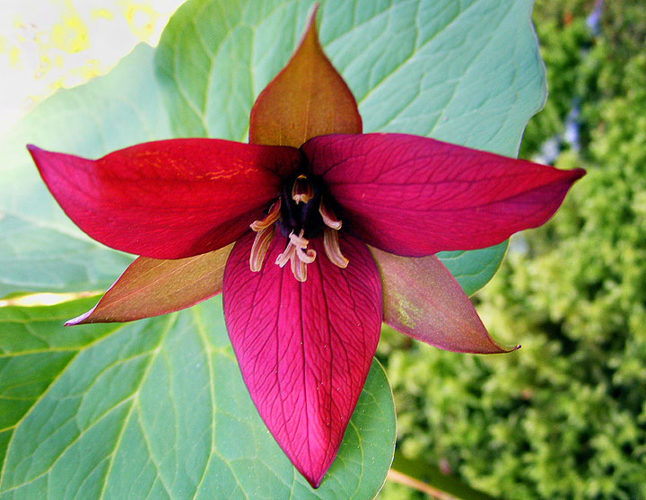 red trillium, at the Warsaw Caves Conservation Park, Ontario, Canada. [foto by P.B.Toman]